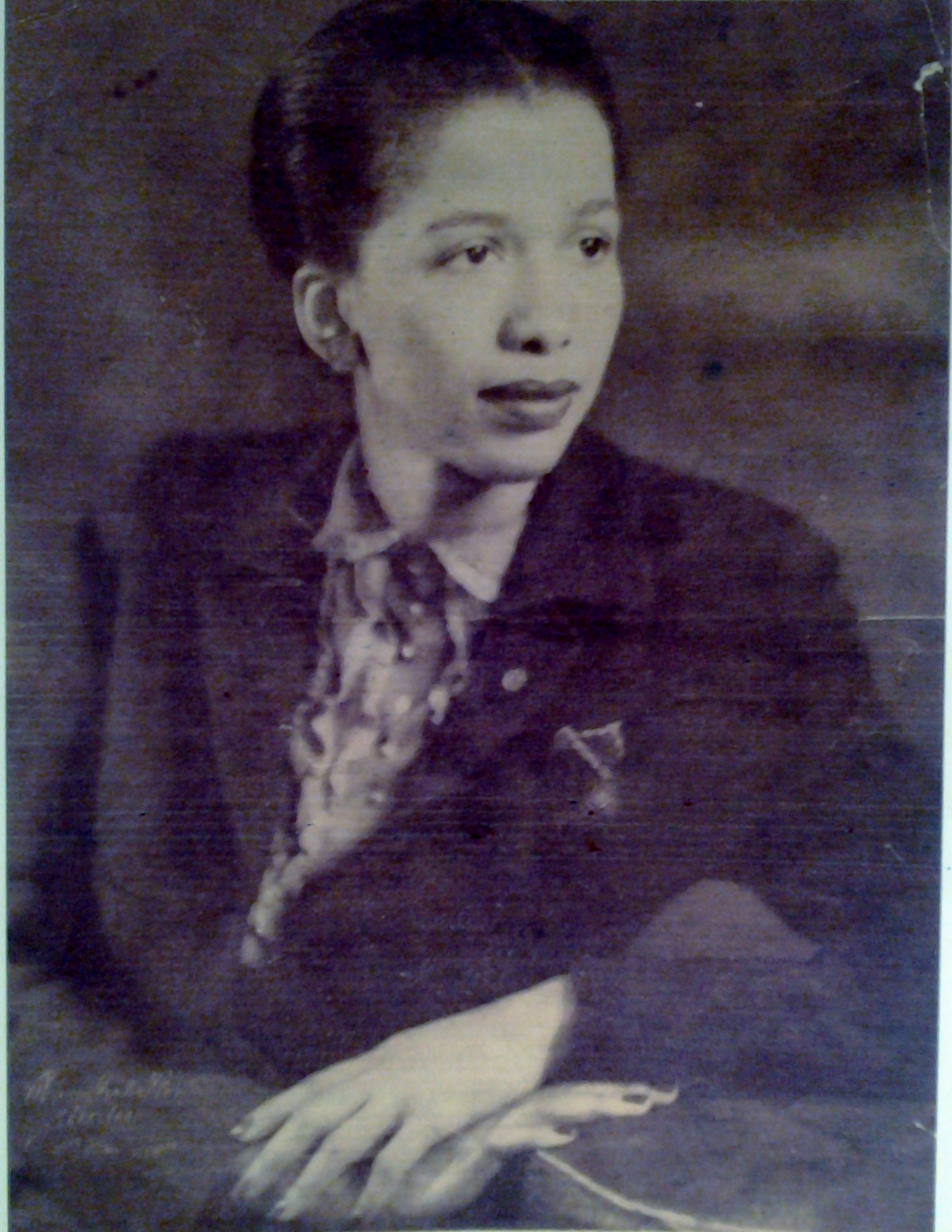 Photo of Irene Higginbotham